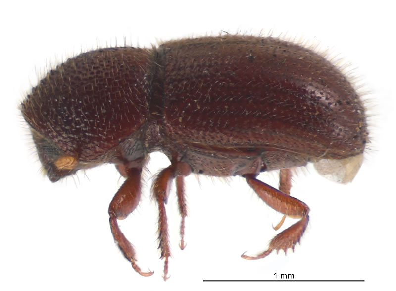 Lateral view of a specimen of Coccotrypes dactyliperda photographed by Landcare Research New Zealand Ltd.